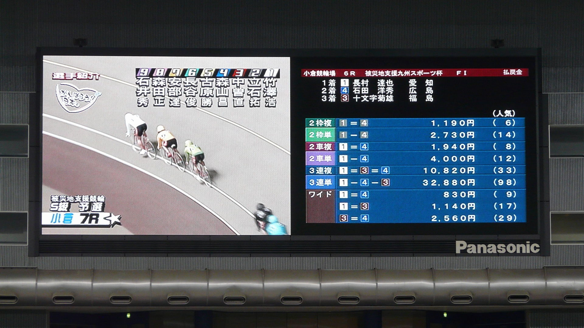 Kokura-keirin